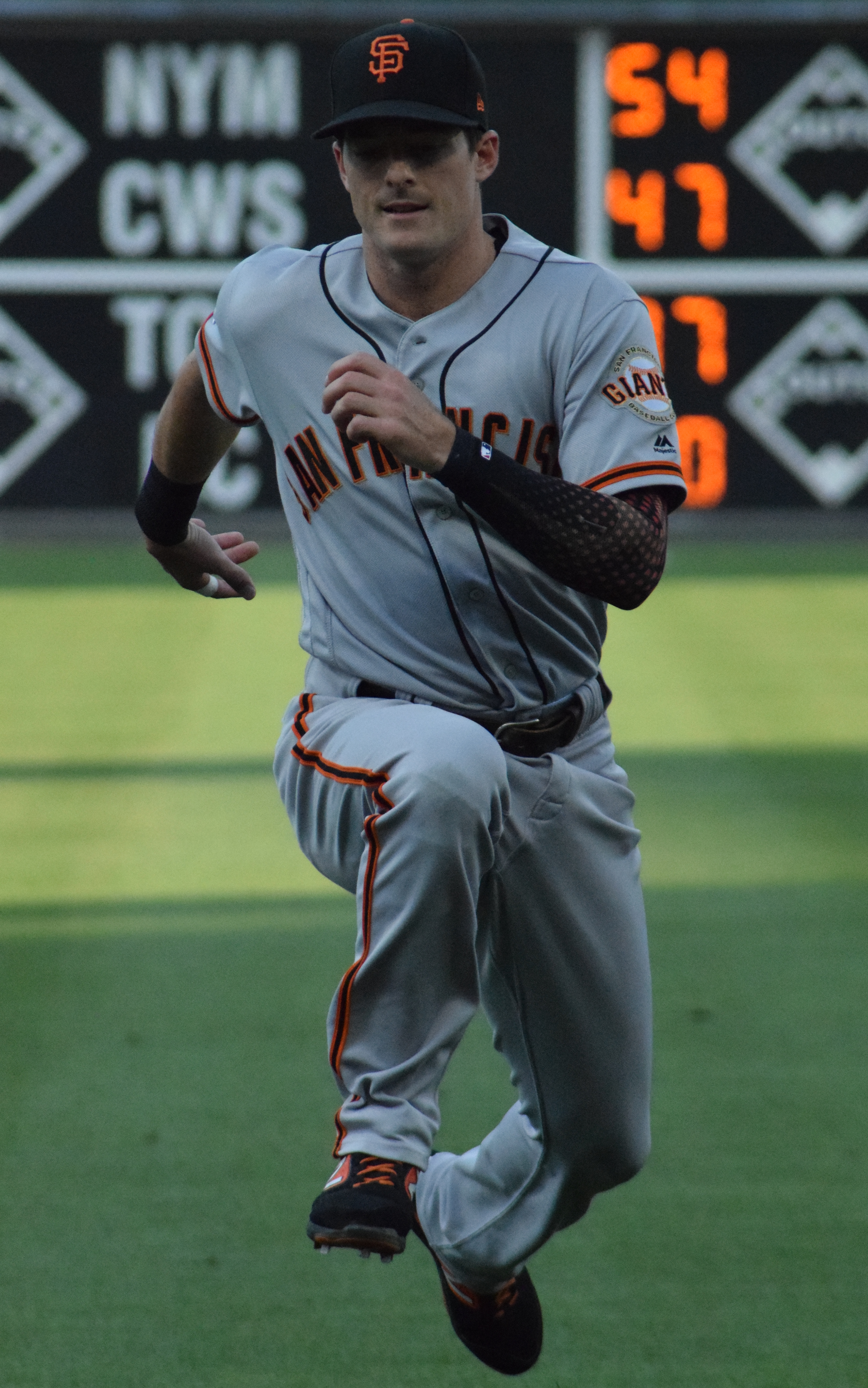 Mike Yastrzemski warms up for the San Francisco Giants before a 2019 game at Citizens Bank Park in Philadelphia